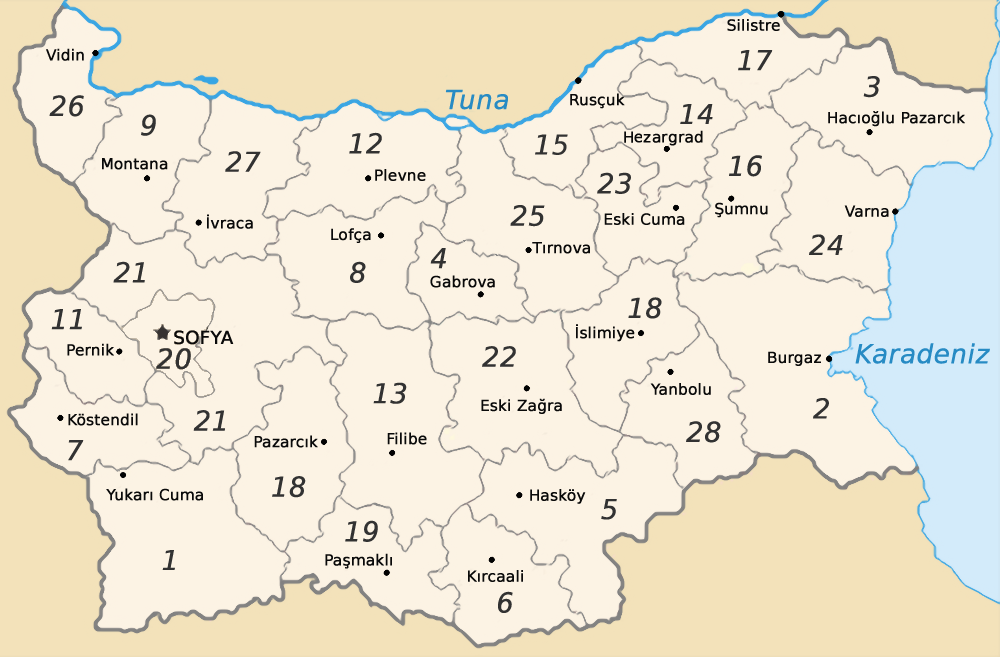 Map of districts of Bulgaria, transliterated in Turkish